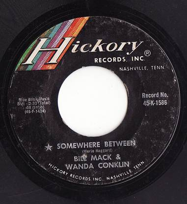 Somewhere Between by Bill Mack & Wanda Conklin, Hickory [year unknown].